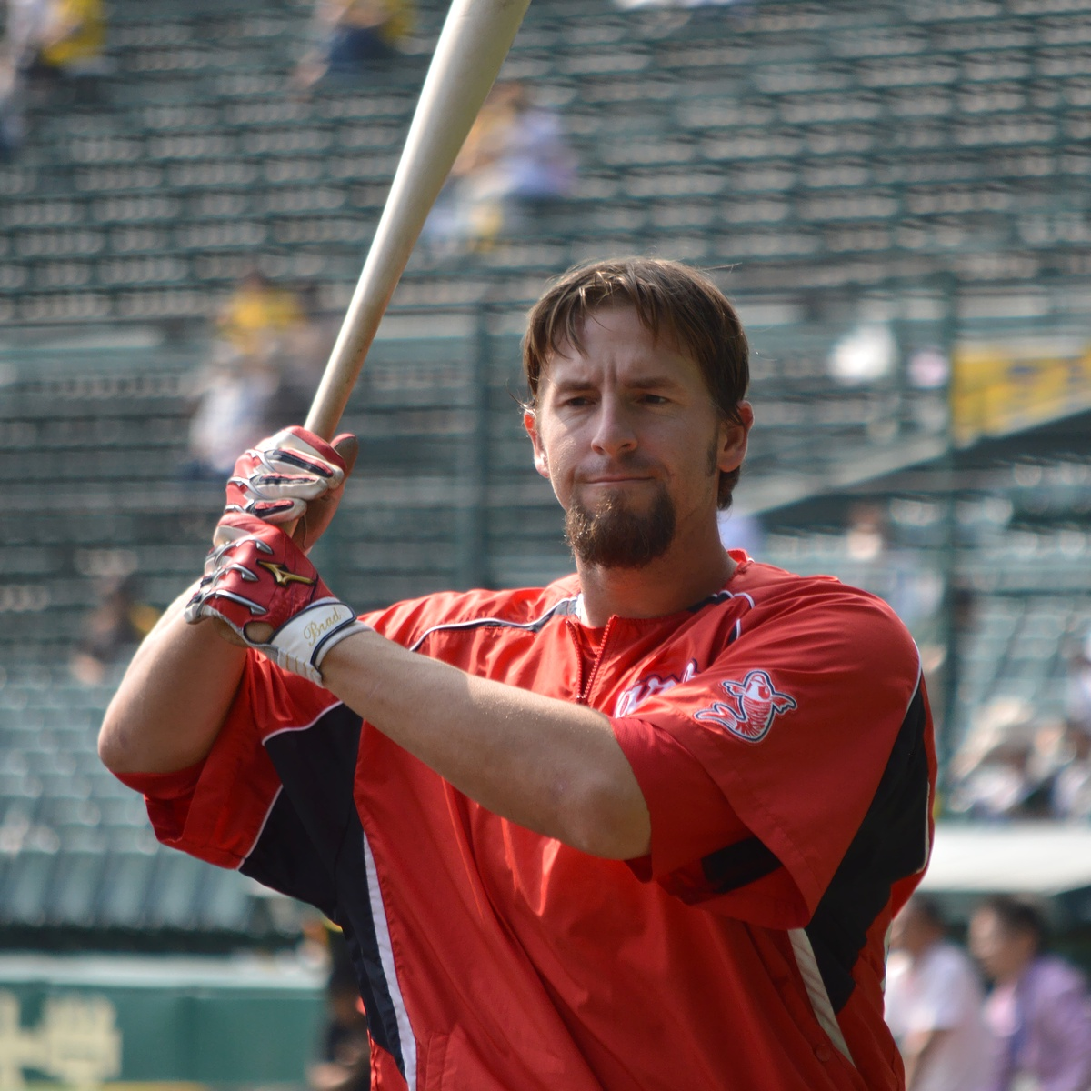 HC-Brad-Eldred20131012